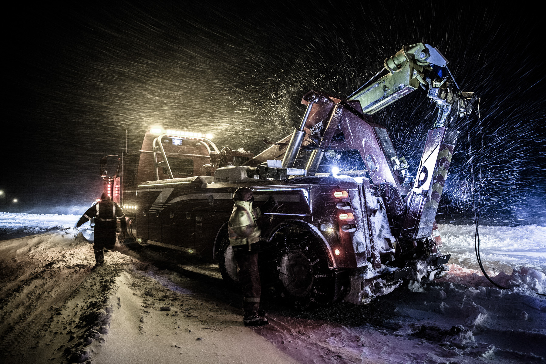 Highway Thru Hell Season 6- Publicity Photos. Photo by Sean F. White for Great Pacific Media